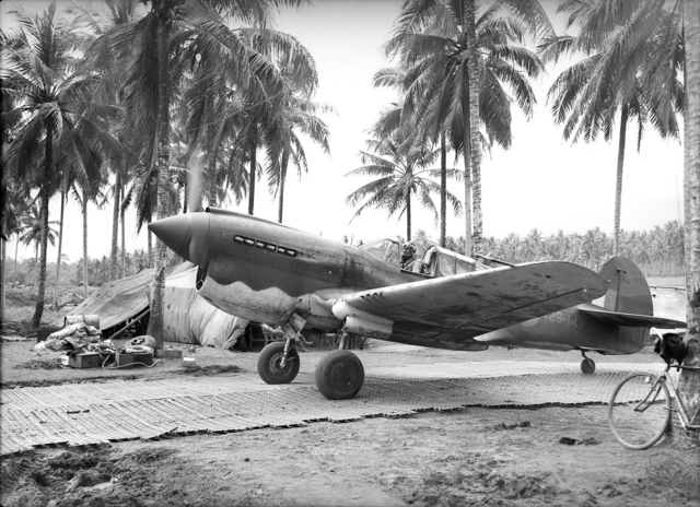 A No. 75 Squadron RAAF P-40 Kittyhawk at Milne Bay.